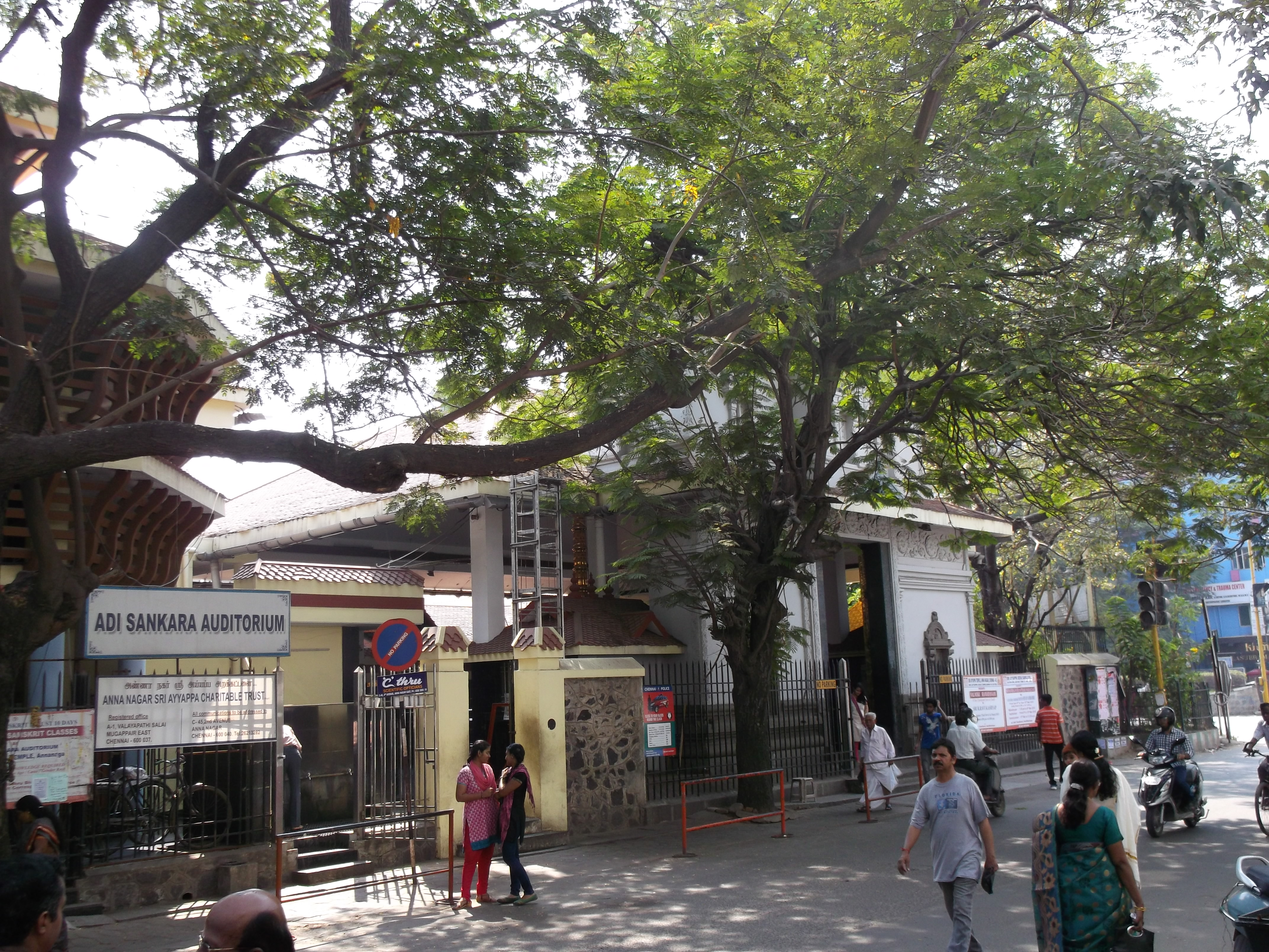 Main view of the Anna Nagar Ayyappan Koil, looking to the southeast towards the Second Avenue, taken on 22 February 2015 at around 9:30 am.